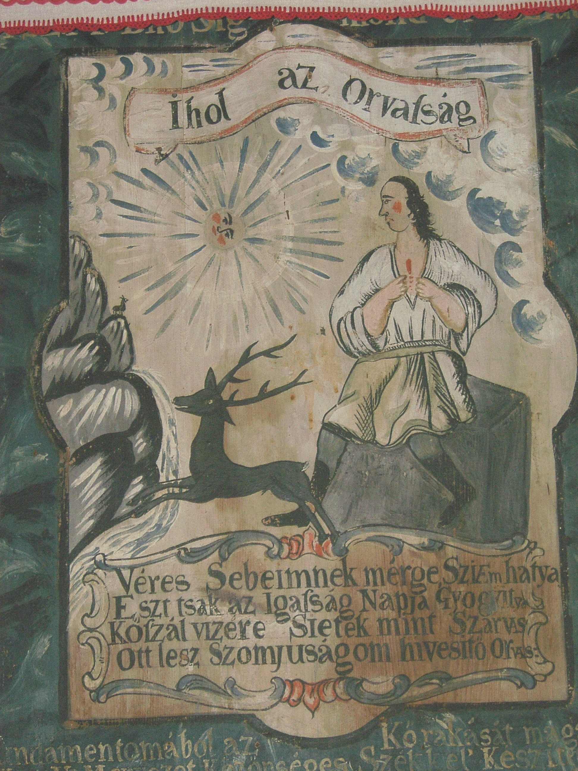 Reformed church, organ-loft detail in Bicălatu, Cluj